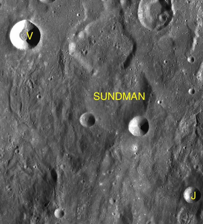 Part of the chart LAC-72 used for the presentation